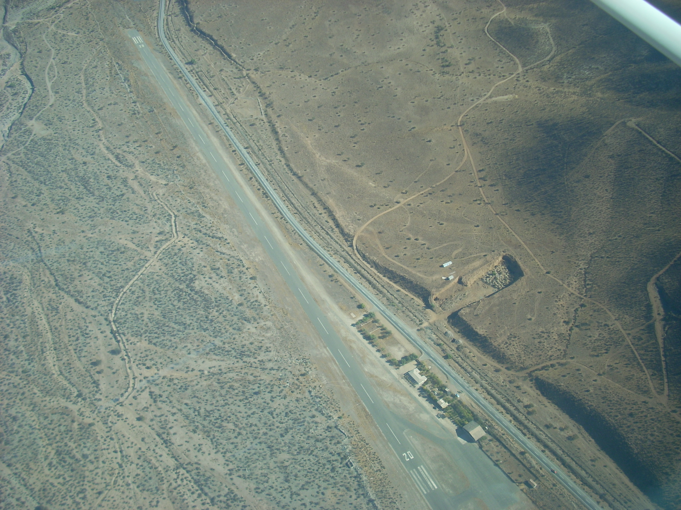 Aerial view of Aucó airdrome